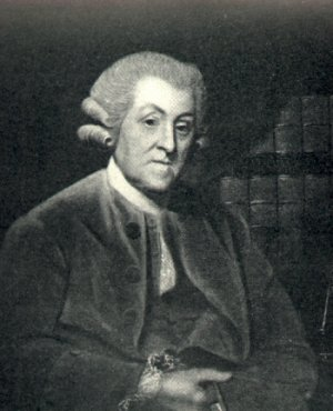 Sir John Hawkins (29 March 1719 – 21 May 1789), English author